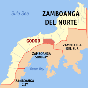 Map of the Zamboanga del Norte showing the location of Godod